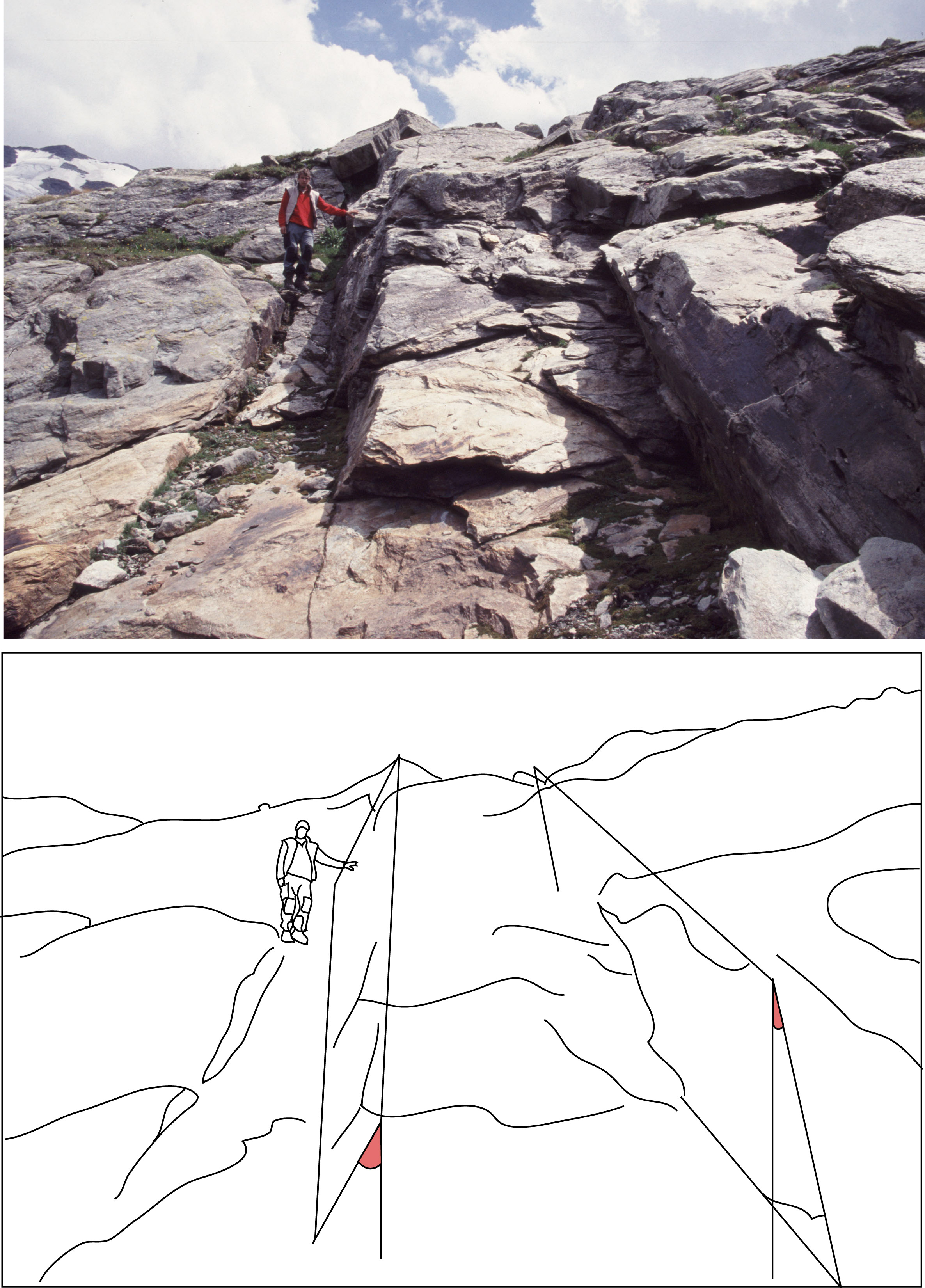 Conjugated normal faults in the Vanoise Massif (french Alps) related to North-South recent (Miocene ?) extension.